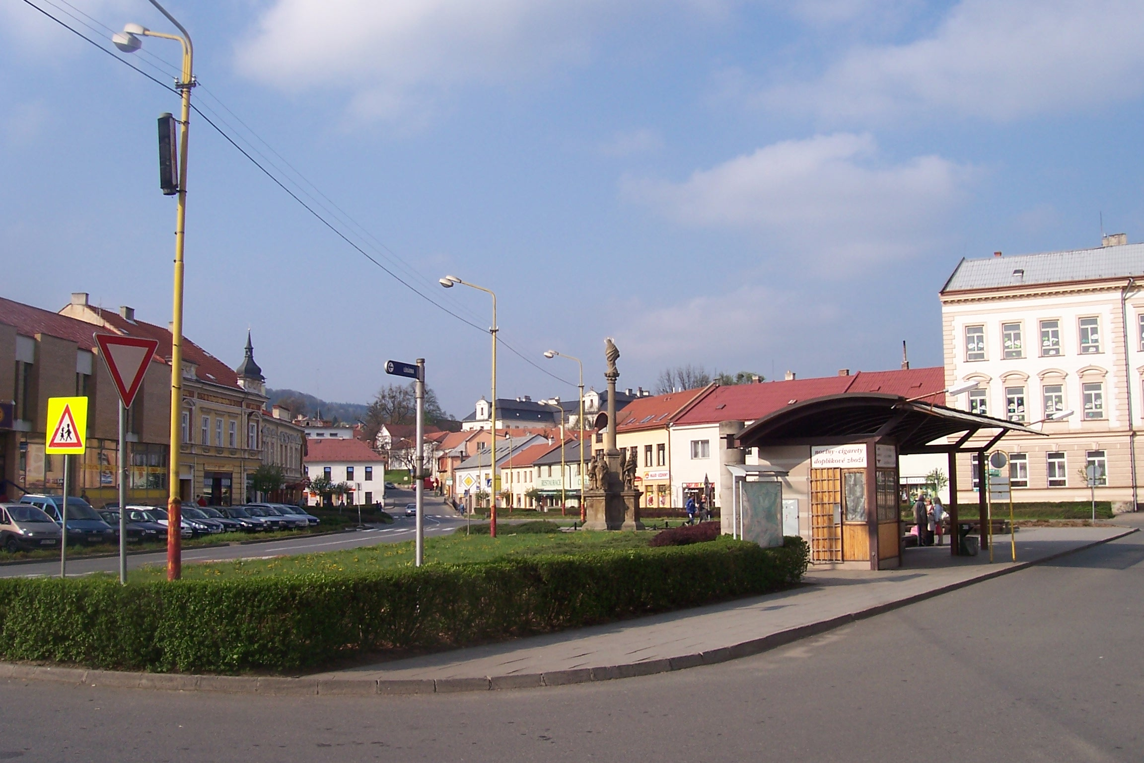 Vizovice in Zlín District, Czech Republic. Square Masarykovo náměstí, Maria Column, castle in the background.